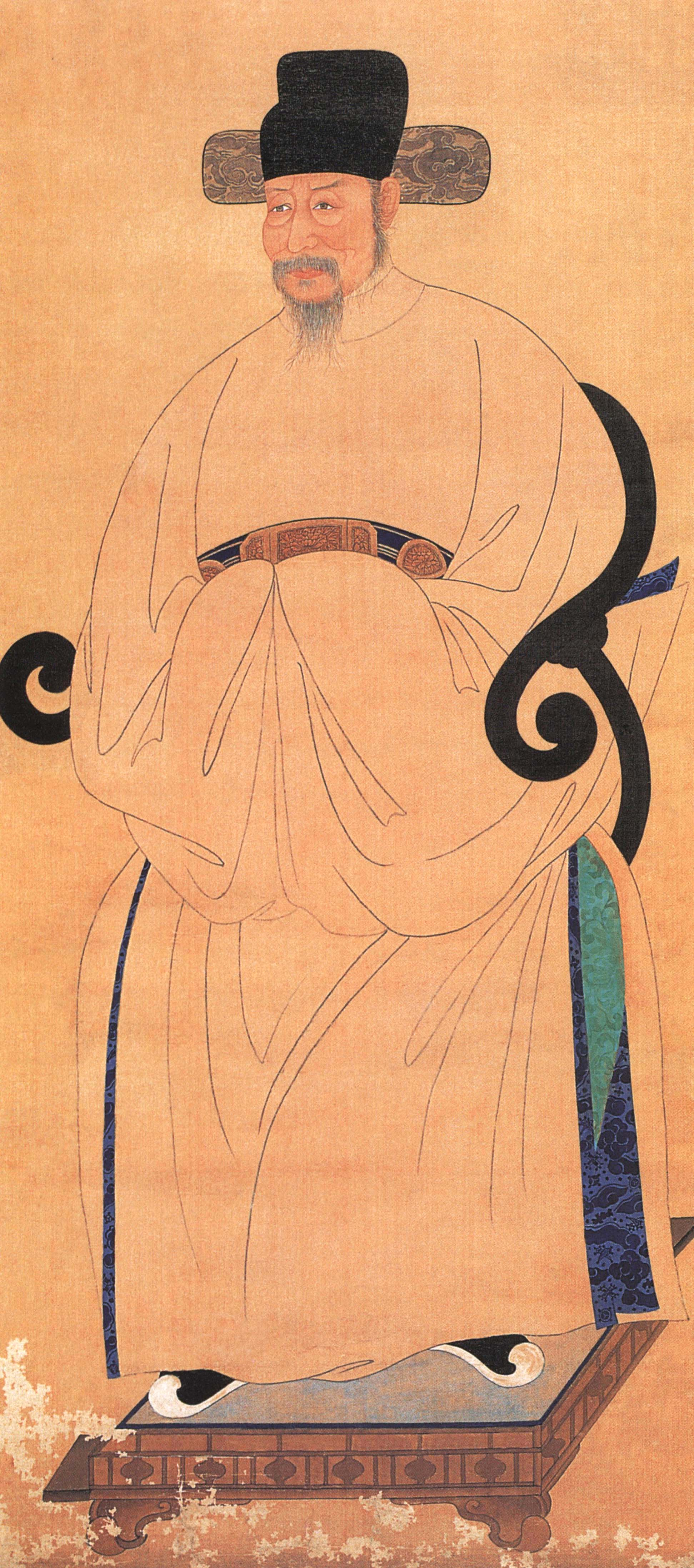 Copy, by Kim Myeong-guk, of National Treasure No. 792 (see KCC)